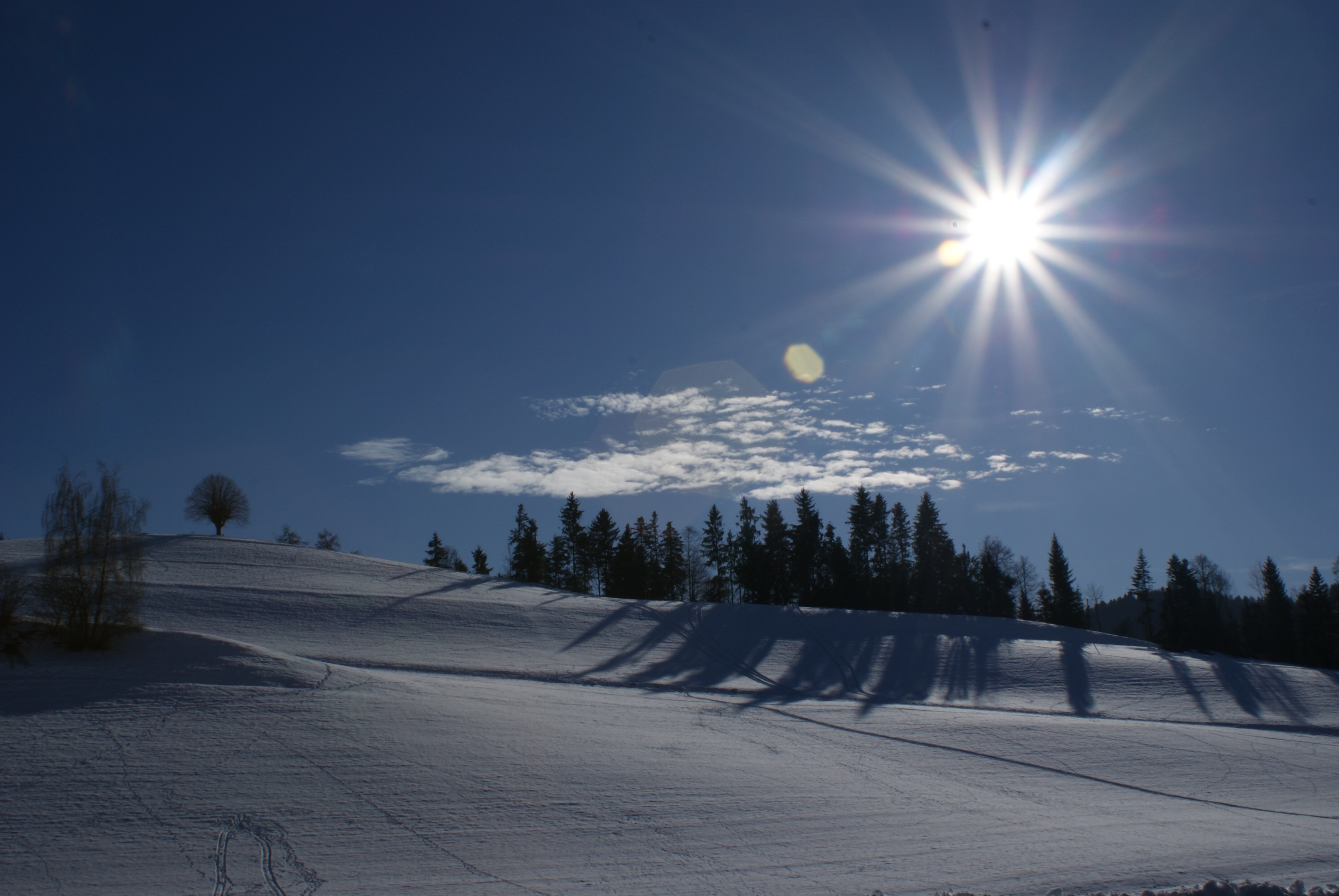 A beautyfull Winter Day in 2009